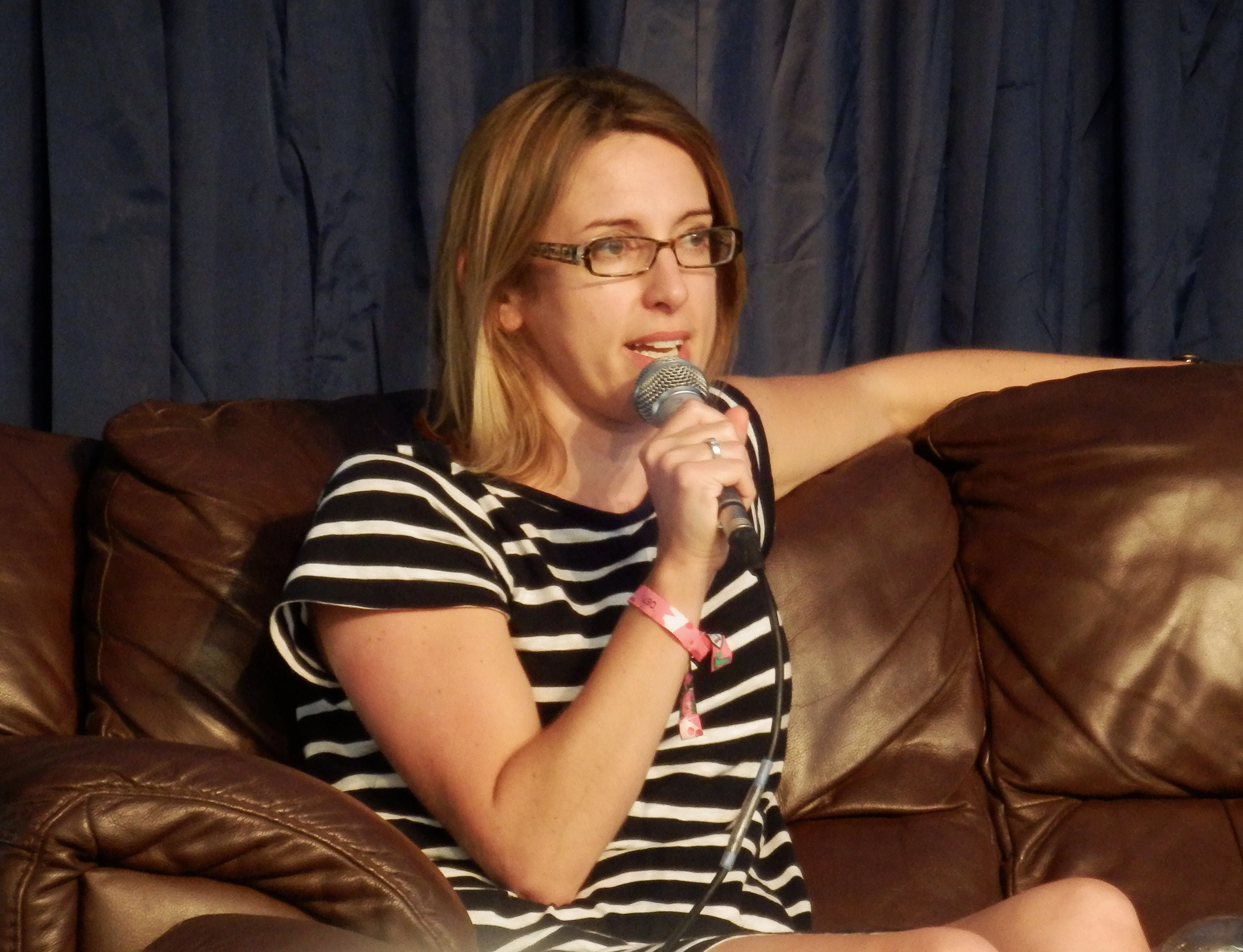 Sarah-Jayne Blakemore speaking at the Latitude Festival in 2015